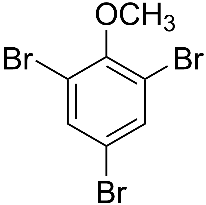 Chemical structure of 2,4,6-tribromoanisole